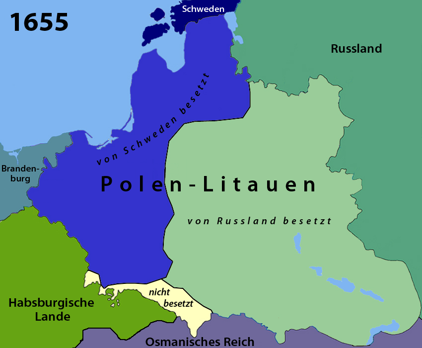 Deluge in Poland (1655–1660)